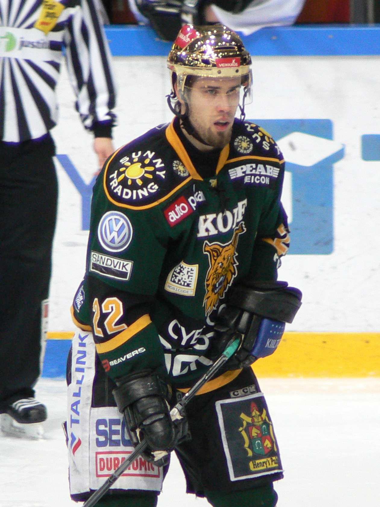 Finnish ice hockey defenseman Markus Seikola playing for Ilves Tampere, wearing the golden helmet as the leading scorer of his team.